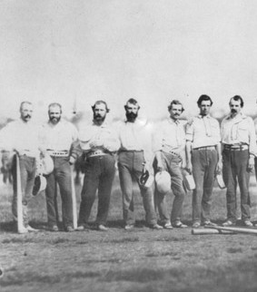 Members of New York Knickerbockers Baseball team, 1859. Daniel Lucius "Doc" Adams is standing fourth from the left.